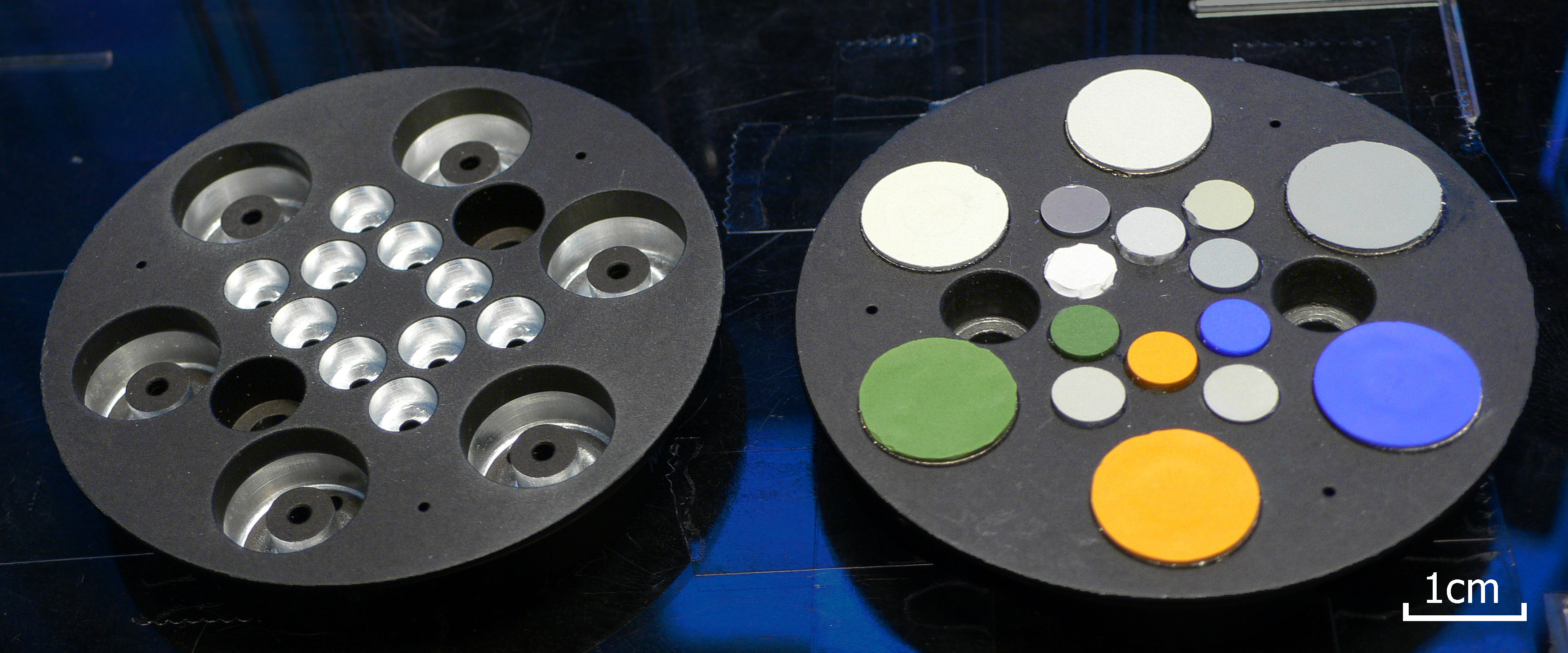 Copy of the calibration color target for the Phoenix Mars mission made by the Niels Bohr Institute in Denmark.